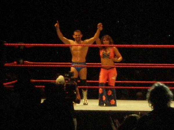 Jamie Noble and Mickie James at a Puerto Rican house show. Jamie Noble and Mickie James.